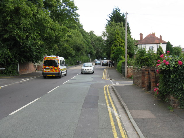 Up Red Hill, The A44 climbs out of Worcester toward Red Hill. Red Hill is an area of Worcester, Worcestershire, England. It is in the south-east of the city.